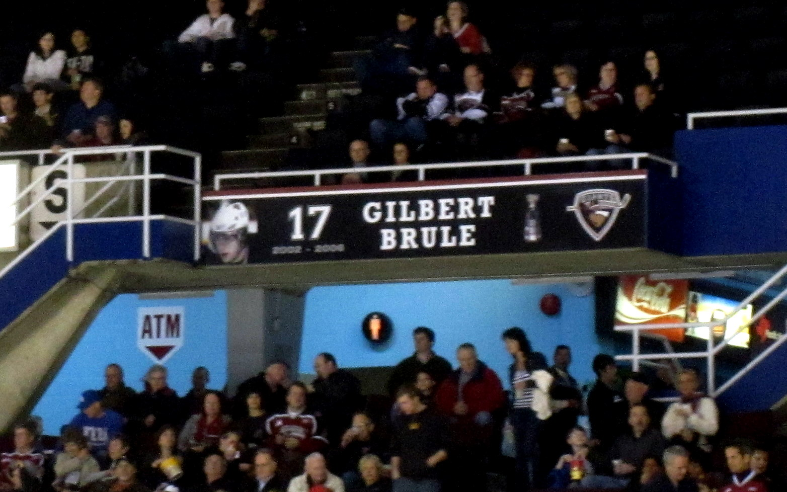 Gilbert Brule's banner on display at the Pacific Coliseum in Vancouver, British Columbia, as part of the Vancouver Giants' Ring of Honour commemorating the team's best alumni.